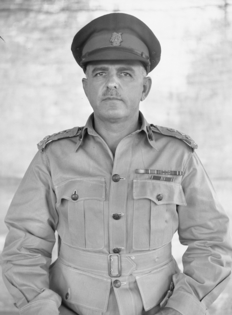 AWM Caption: LAE, NEW GUINEA. 1945-10-04. BRIGADIER R.H. NIMMO, DEPUTY ASSISTANT AND QUARTERMASTER GENERAL HEADQUARTERS FIRST ARMY.